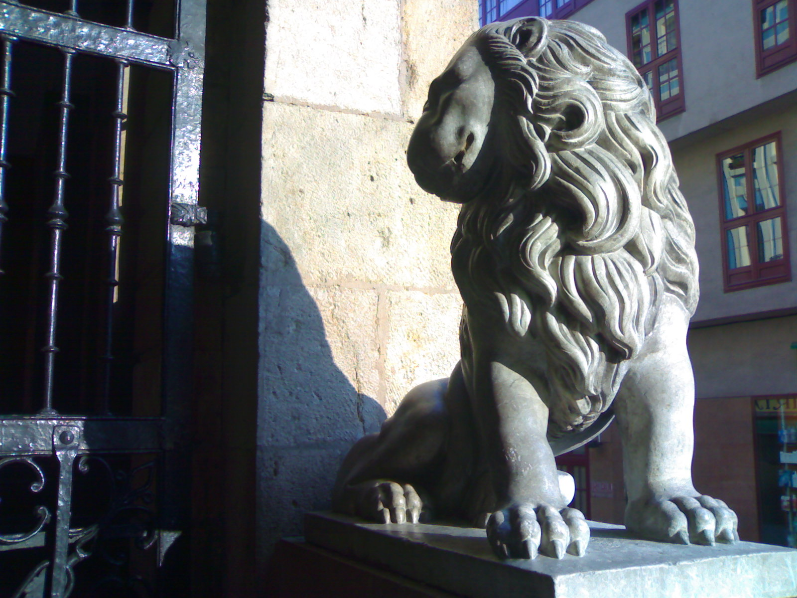 Lion in Oviedo.